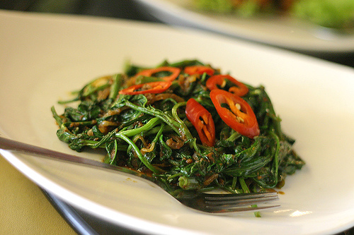 Stir-fried kangkung with blachan seasoning, Penang style